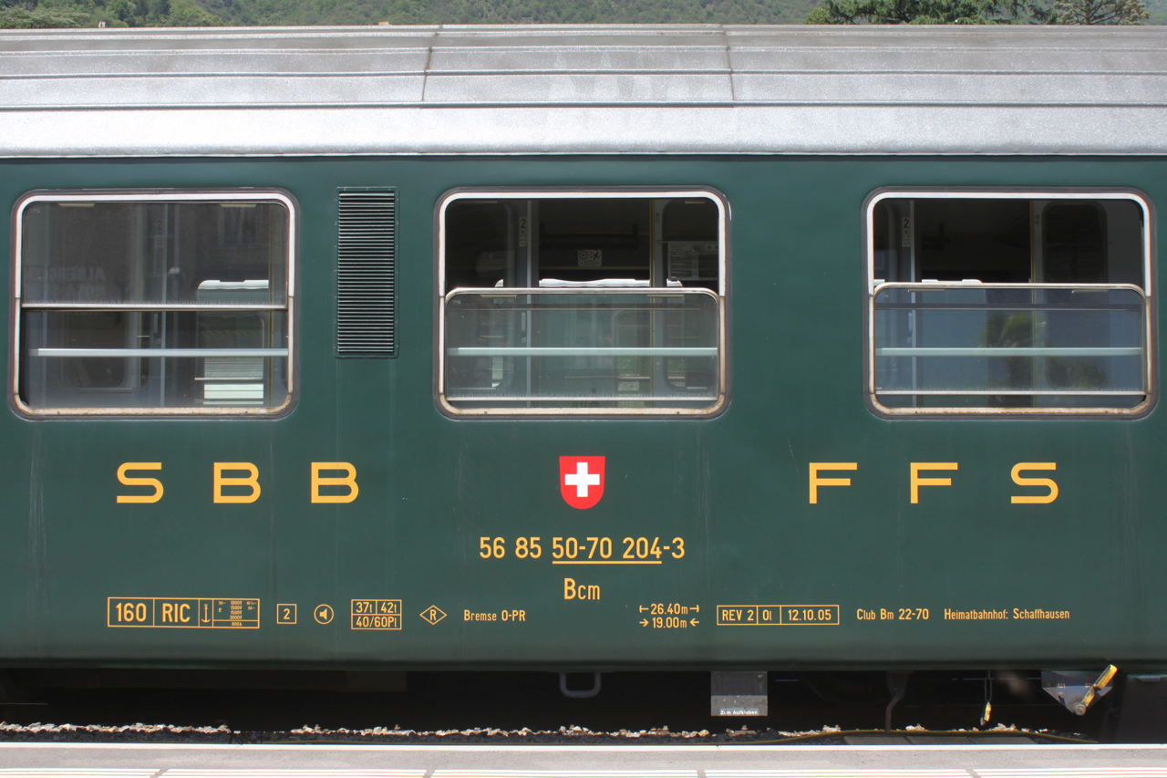 Makings on Bcm 56 85 50-70 204-3 of Club Bm 22-70 at Locarno train station.